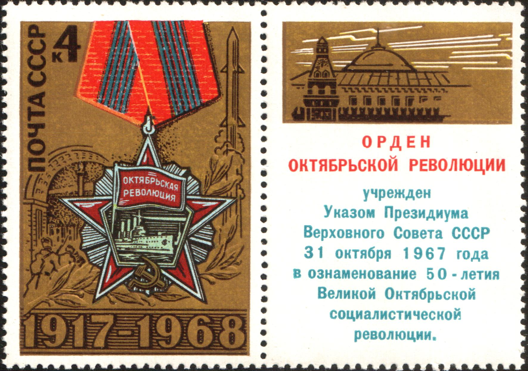 USSR stamp: Order of the October Revolution, Winter Palace capturing and Rocket, with label. Series: 51th Anniversary of Great October Socialist Revolution